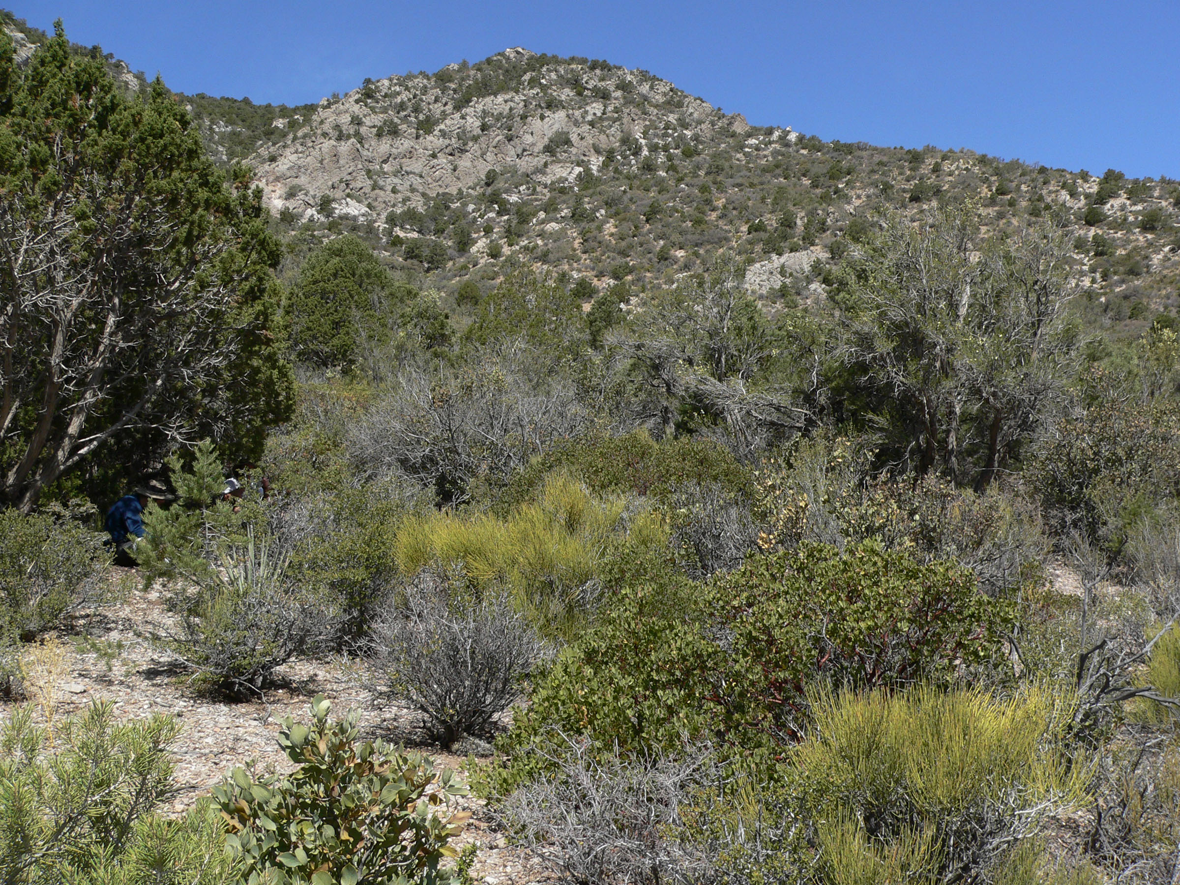 Sagebrush chaparral in the valley's upper end, on the approach to Virgin Peak, Virgin Mountains, Clark County, Nevada.